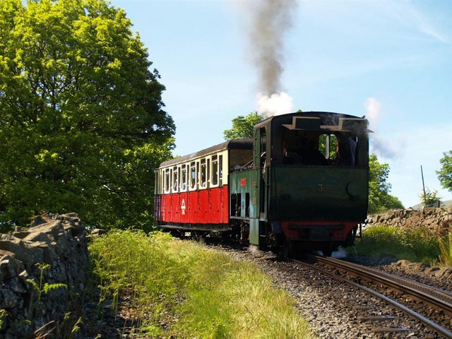 Snowdonia Mountain Railway